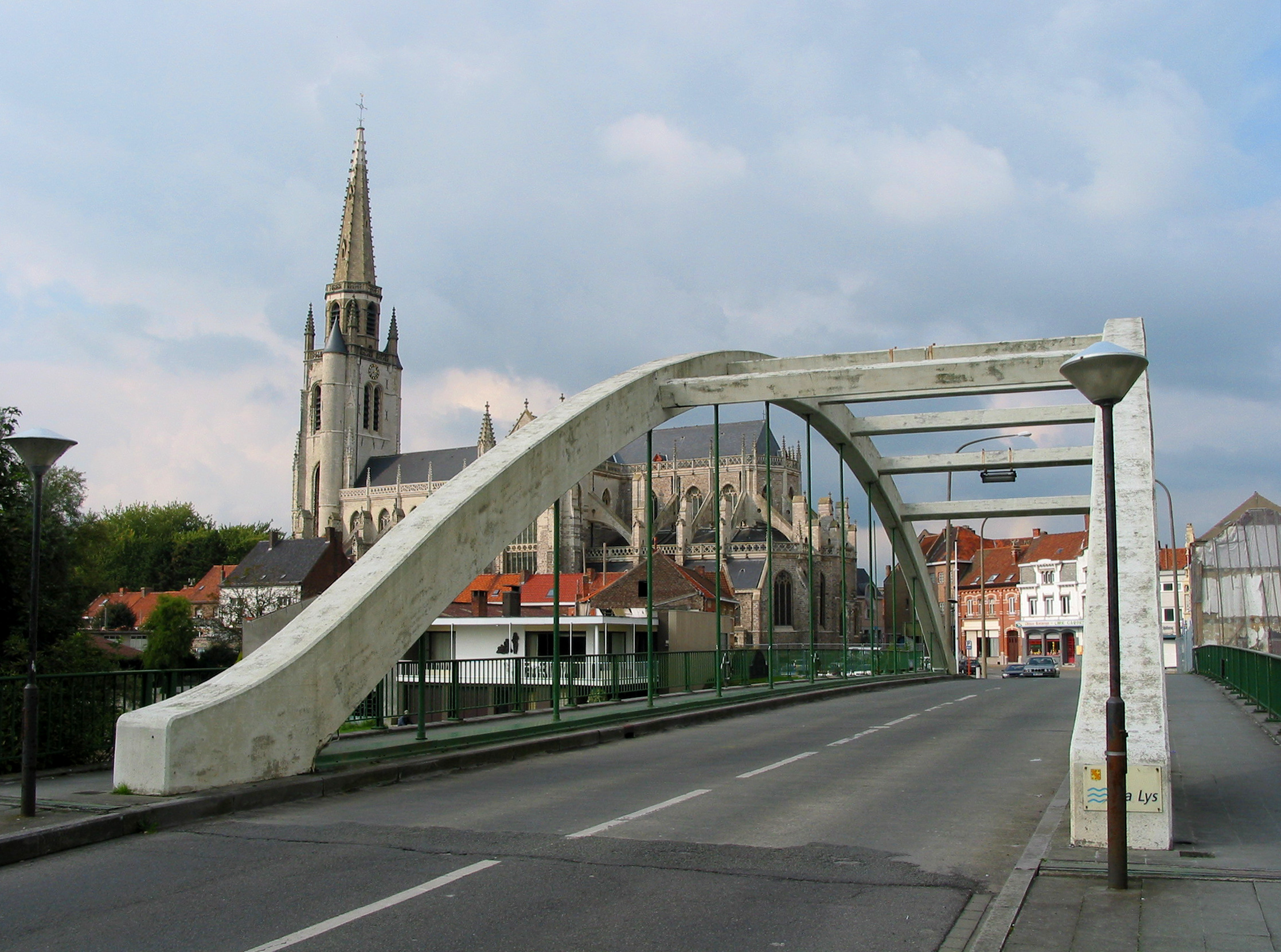 Wervik (Belgium), the bridge on the lys river and the St. Medardus church.